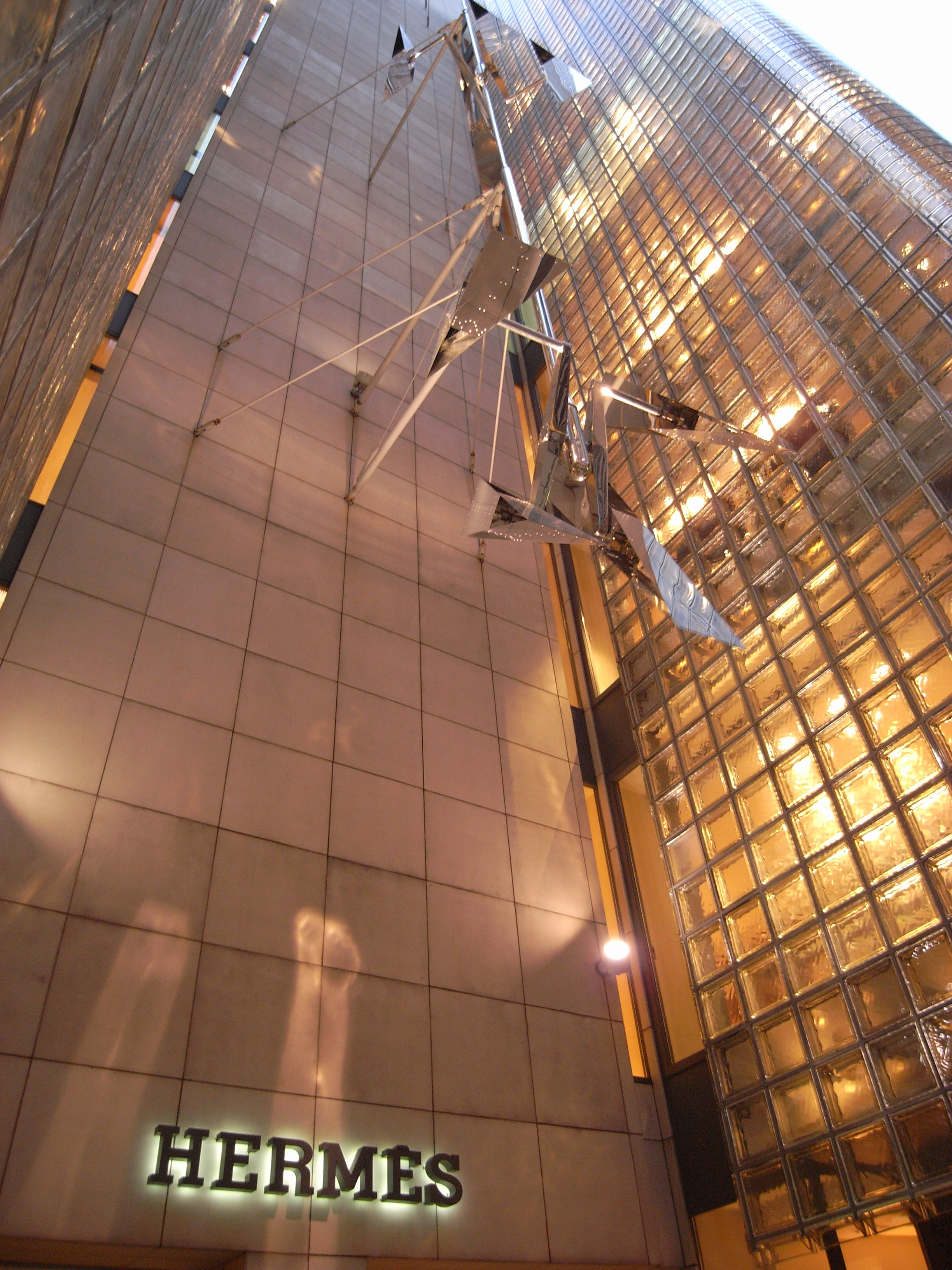 Maison Hermès building, Tokyo by Renzo Piano